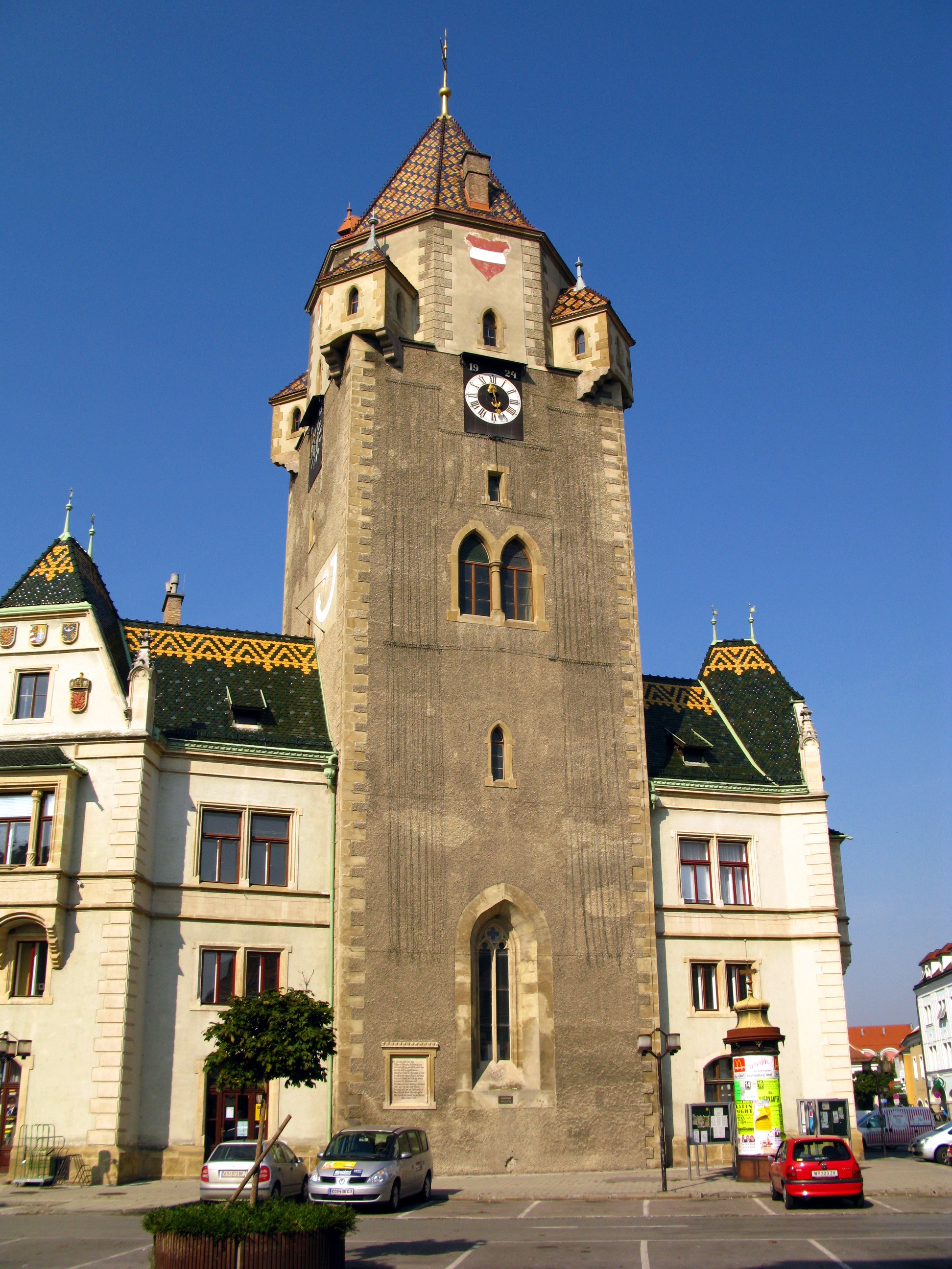 Tower of the city hall in Korneuburg / near Vienna / Austria / EU. It was build as guard tower around 1440.